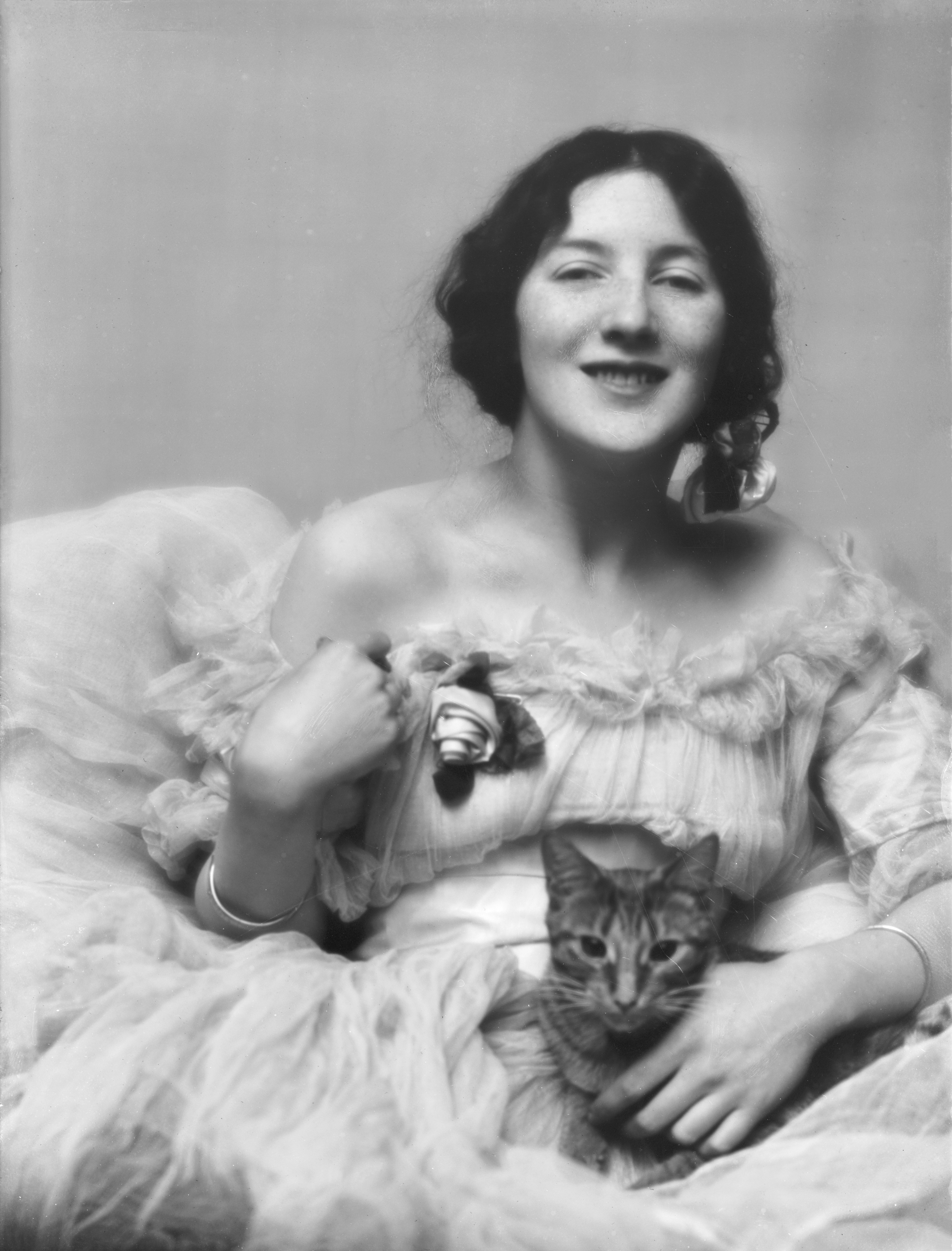 Title Munson, Audrey, Miss, with Buzzer the cat, portrait photograph Contributor Names Genthe, Arnold, 1869-1942, photographer Created / Published 1915 Mar. 23. Subject Headings - Genthe, Arnold,--1869-1942--Animals & pets. Format Headings Glass negatives. Portrait photographs. Notes - Purchase; Genthe Estate; 1942 or 1943. - 1933; RR card; sleeves Medium 1 negative : glass ; 5 x 7 in. Call Number/Physical Location LC-G432- 9355-007 [P&P]